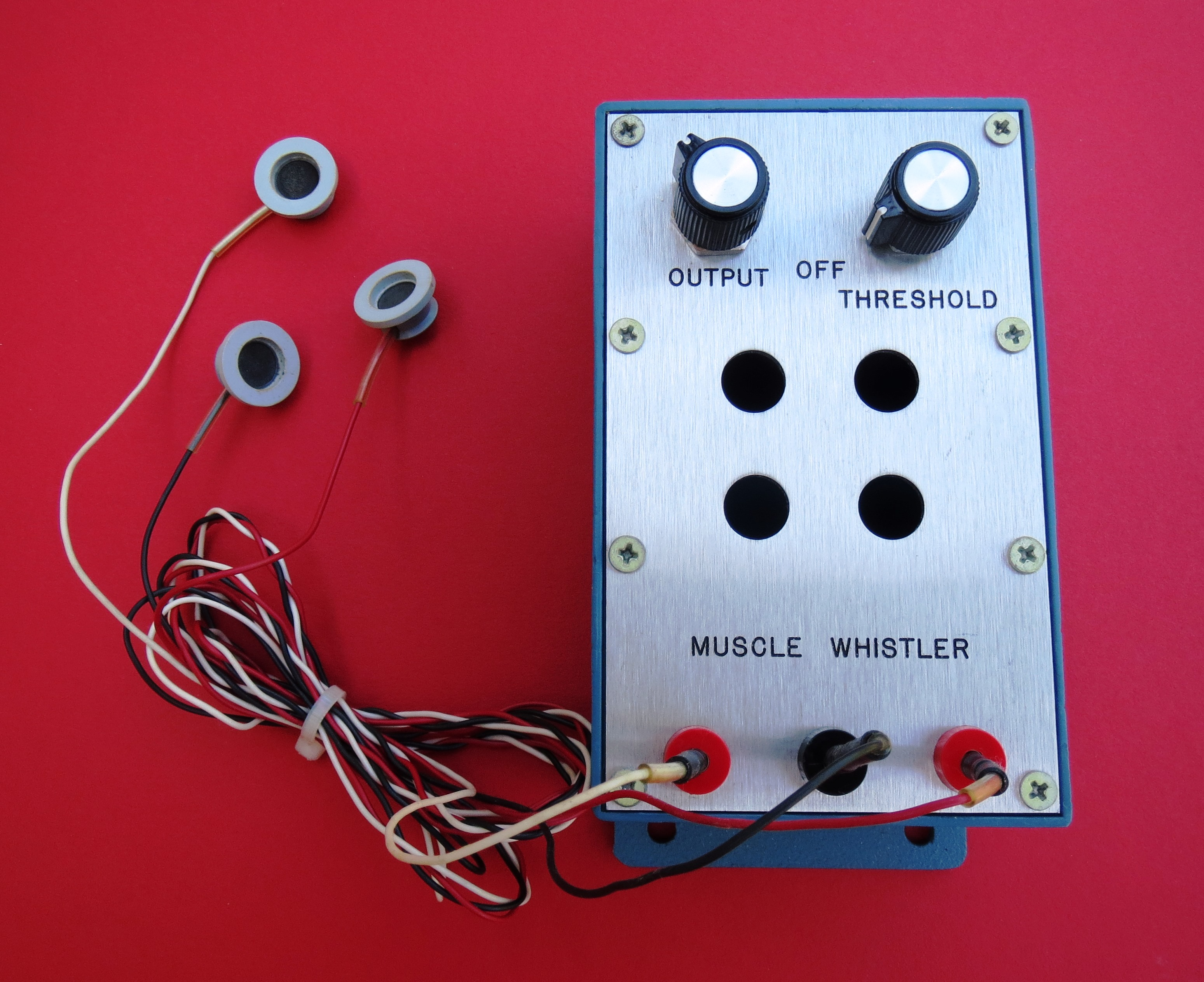 The Muscle Whistler was an early biofeedback device, developed by Harry Garland and Roger Melen, which used surface electromyogram (EMG) signals to control an audio tone. The Muscle Whistler was introduced in Popular Electronics magazine in 1971. It was clinically evaluated at Stanford University and distributed by Telesensory Systems.